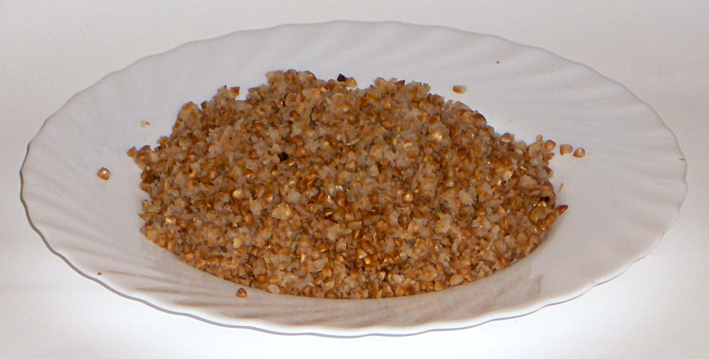 Cooked kasha.